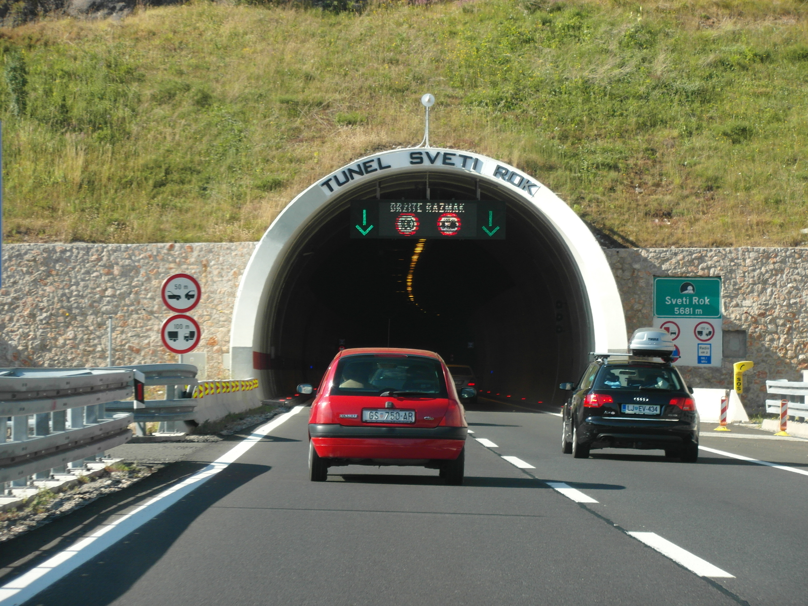 Sveti Rok Tunnel in July 2012.